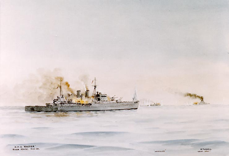 Watercolor depicting the cruisers HMS Exeter (foreground) and HMNZS Achilles (right center background) in action with the German armored ship Admiral Graf Spee (right background). Original caption: "Photo # NH 86397-KN Battle of the River Plate, 13 Dec. 1939, by E. Tufnell"